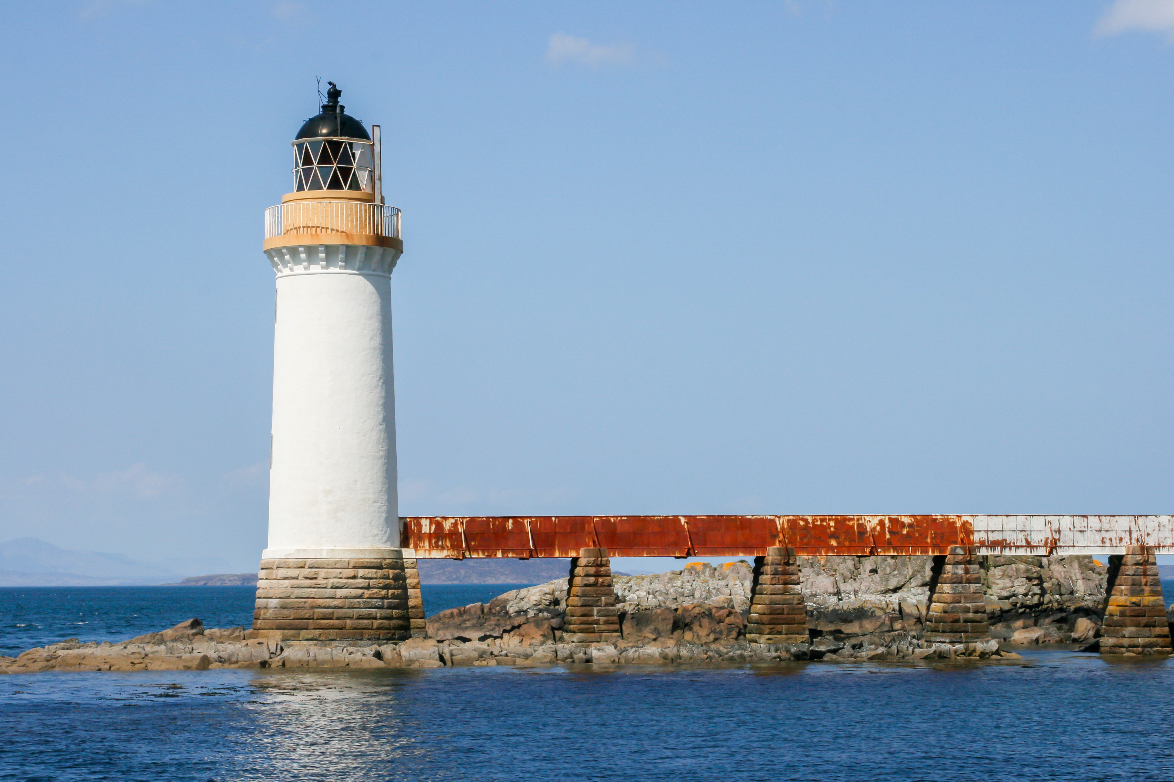 Kyleakin Lighthouse.